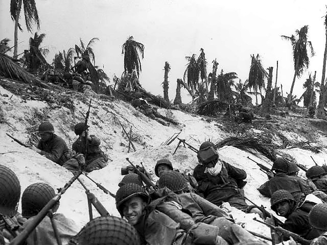 Eniwetok landing. US soldiers on the beach awaiting orders to attack.